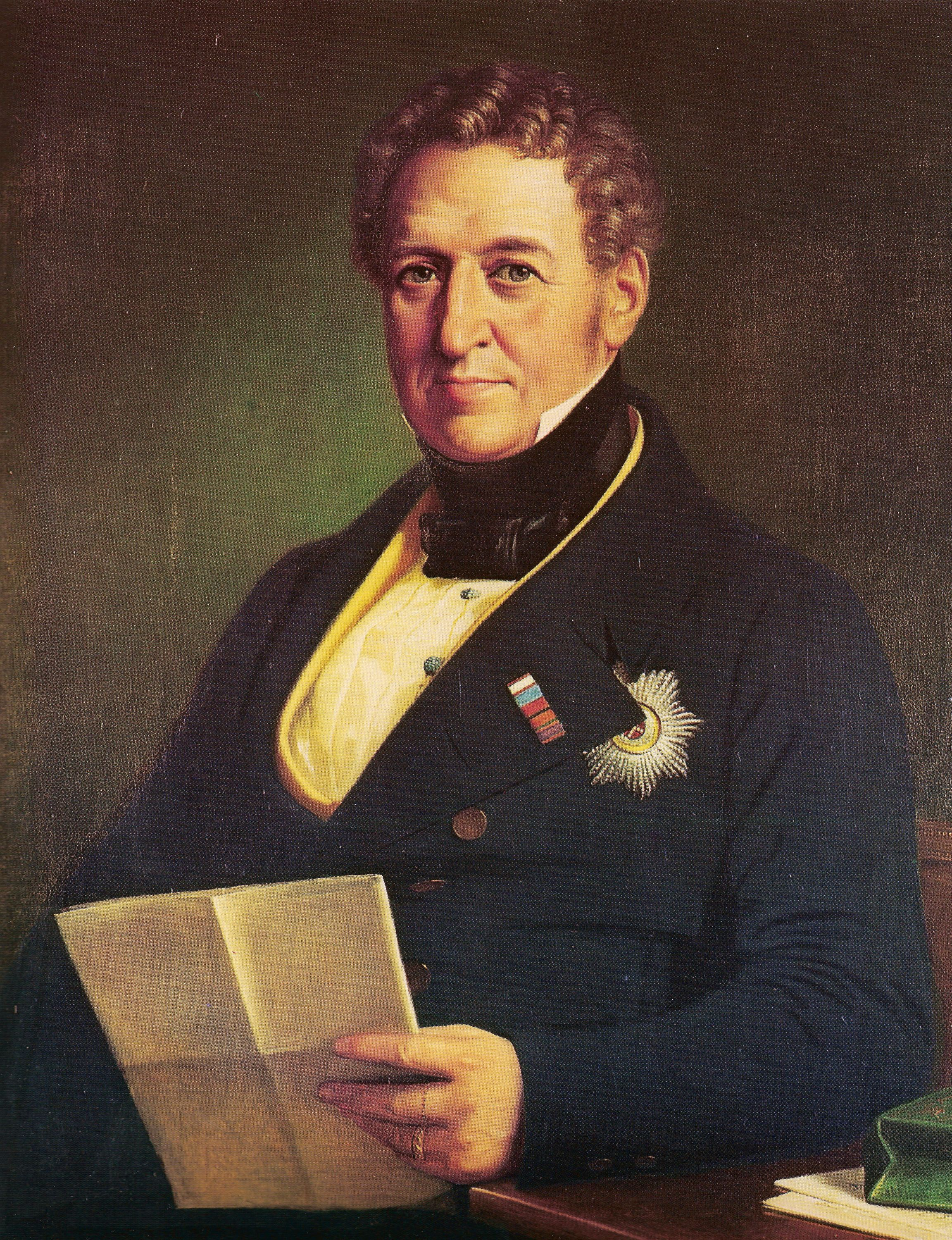 Christian VIII - King of the Danish-German Monarchy